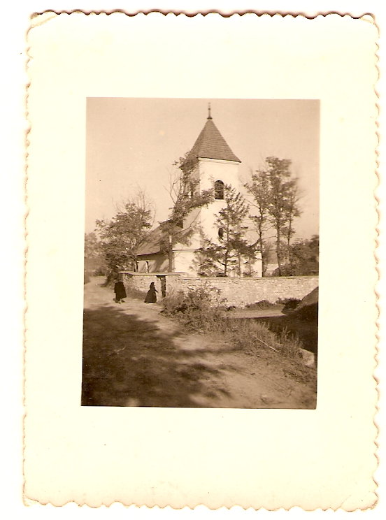 Calvinist church in Etyek.